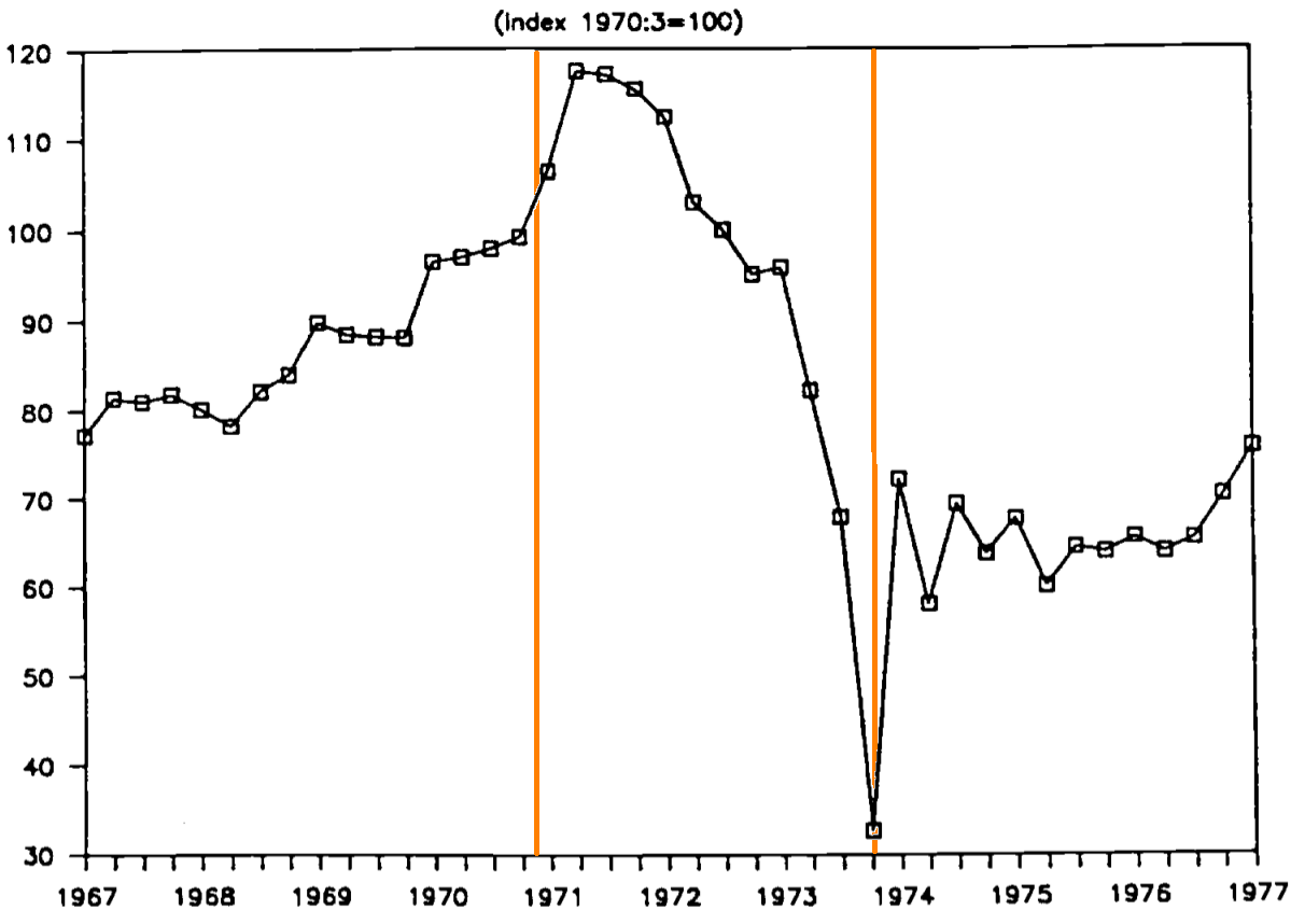 Chile real wage between 1967 and 1977 (1970:3 = 100). Orange lines mark the beginning and end of Allende presidency.